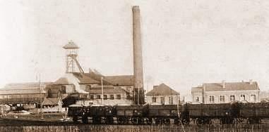 Masny fosse wuillemin 1914